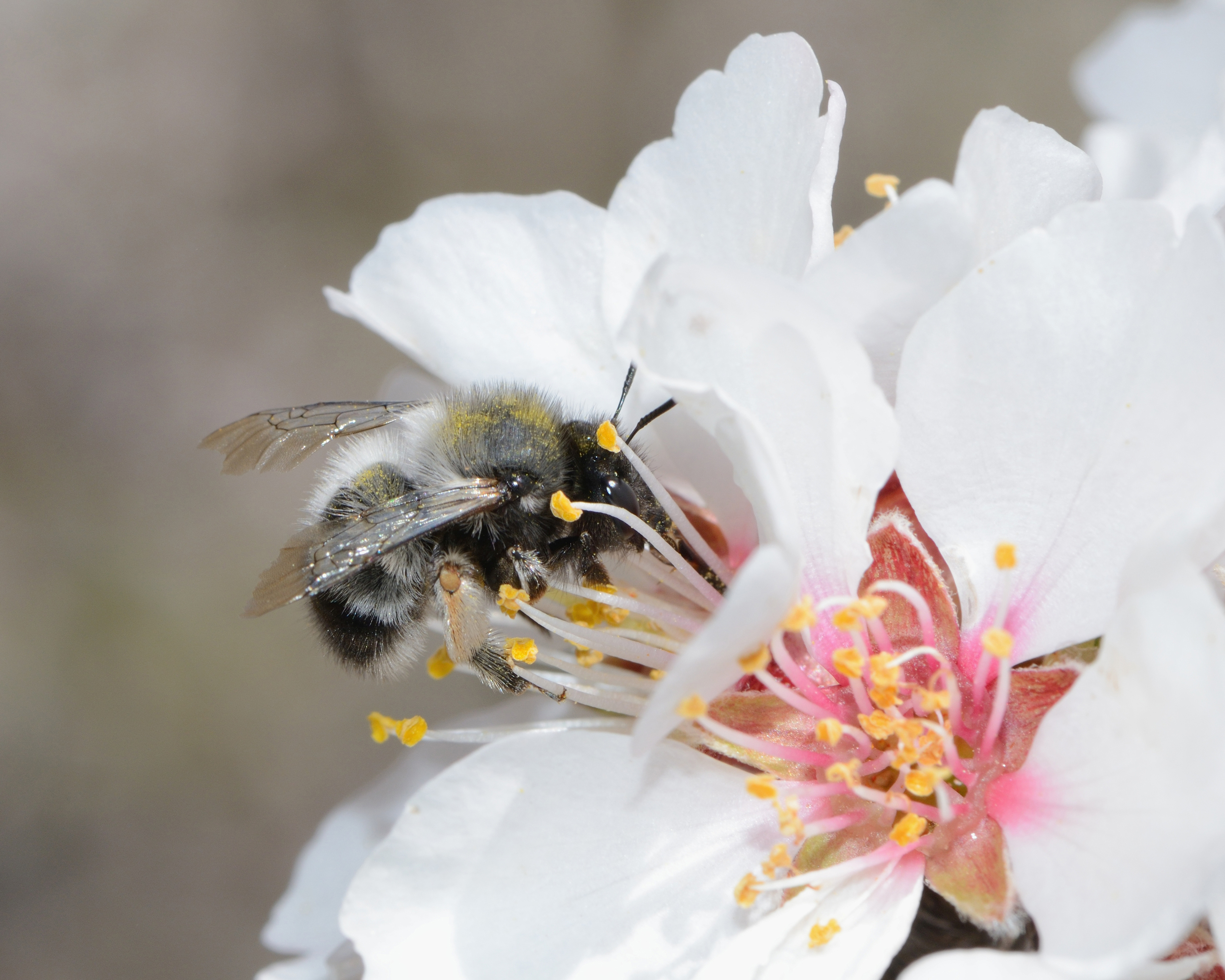 Anthophora nigriceps Morawitz, 1886, female collecting nectar from almond, Mount Hermon, Golan Heights, April 21, 2012.